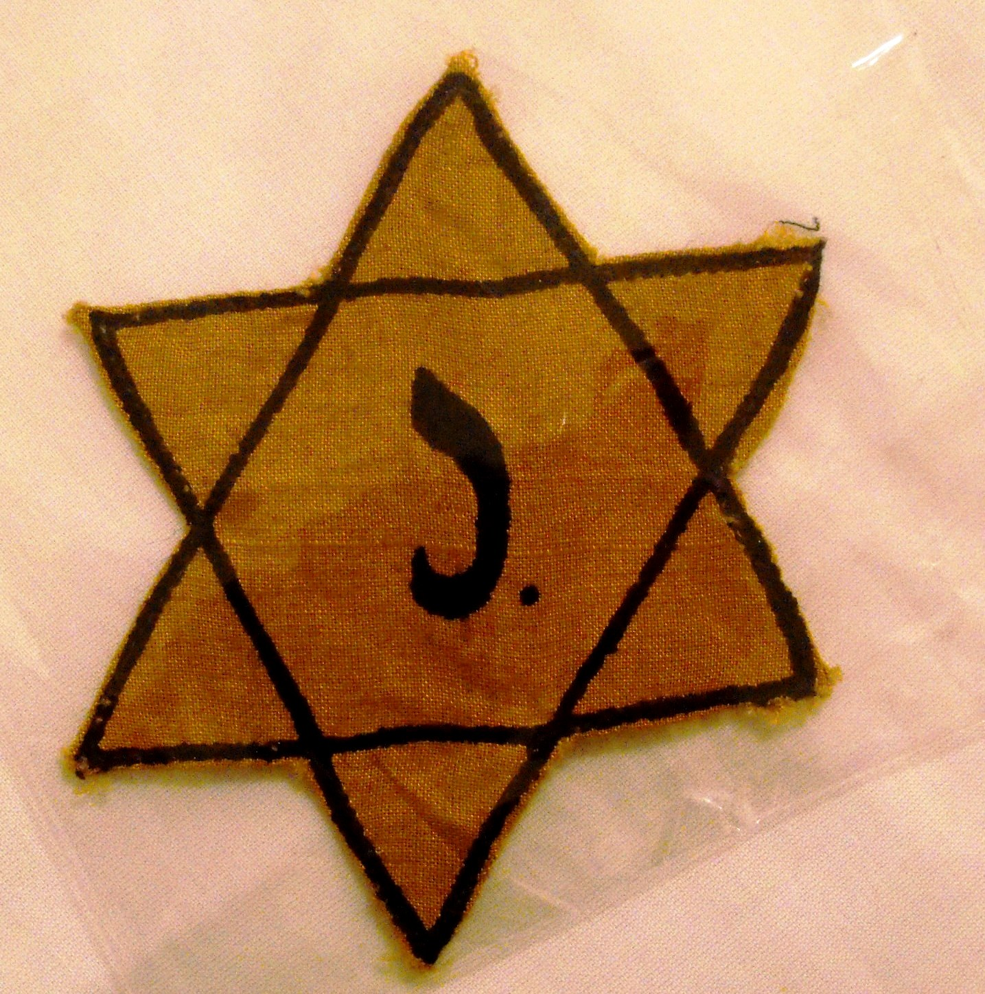 Yellow Star is a Star of David made ​​of yellow cloth. During the Holocaust, the authorities required Jews to wear it on their clothes.